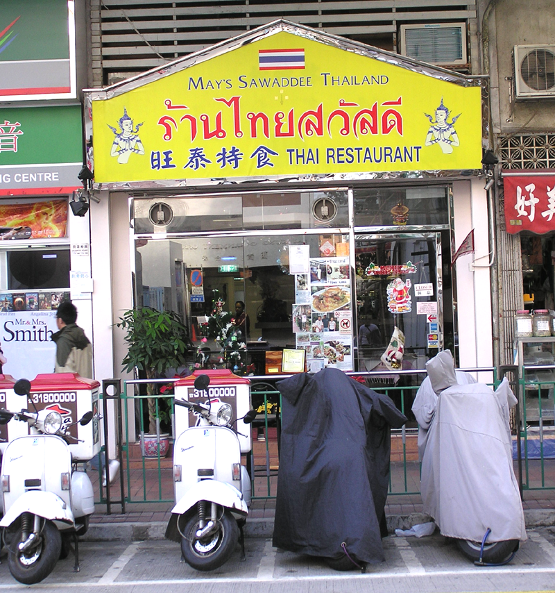 This is a Thai restaurant in Sai Kung, Hong Kong. The photograph was taken by Alan Mak on 16th December, 2005.